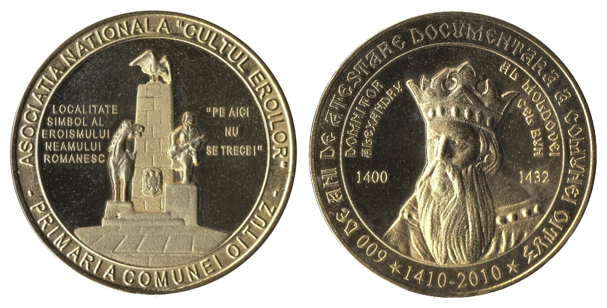 The reverse: In the central field is the statue of the Romanian cavalry, the most successful of all the existing ones. The monument has the famous eagle of victory. On the right side, a soldier equipped with a battle, helmet on his head and a shotgun in a defense position, and to the left the "friend" close in the fight - the horse. Obverse: In the central field there is the effigy of the Lord of Moldavia - Alexandru cel Bun, in the left semi-profile. 600 dpi color scan.